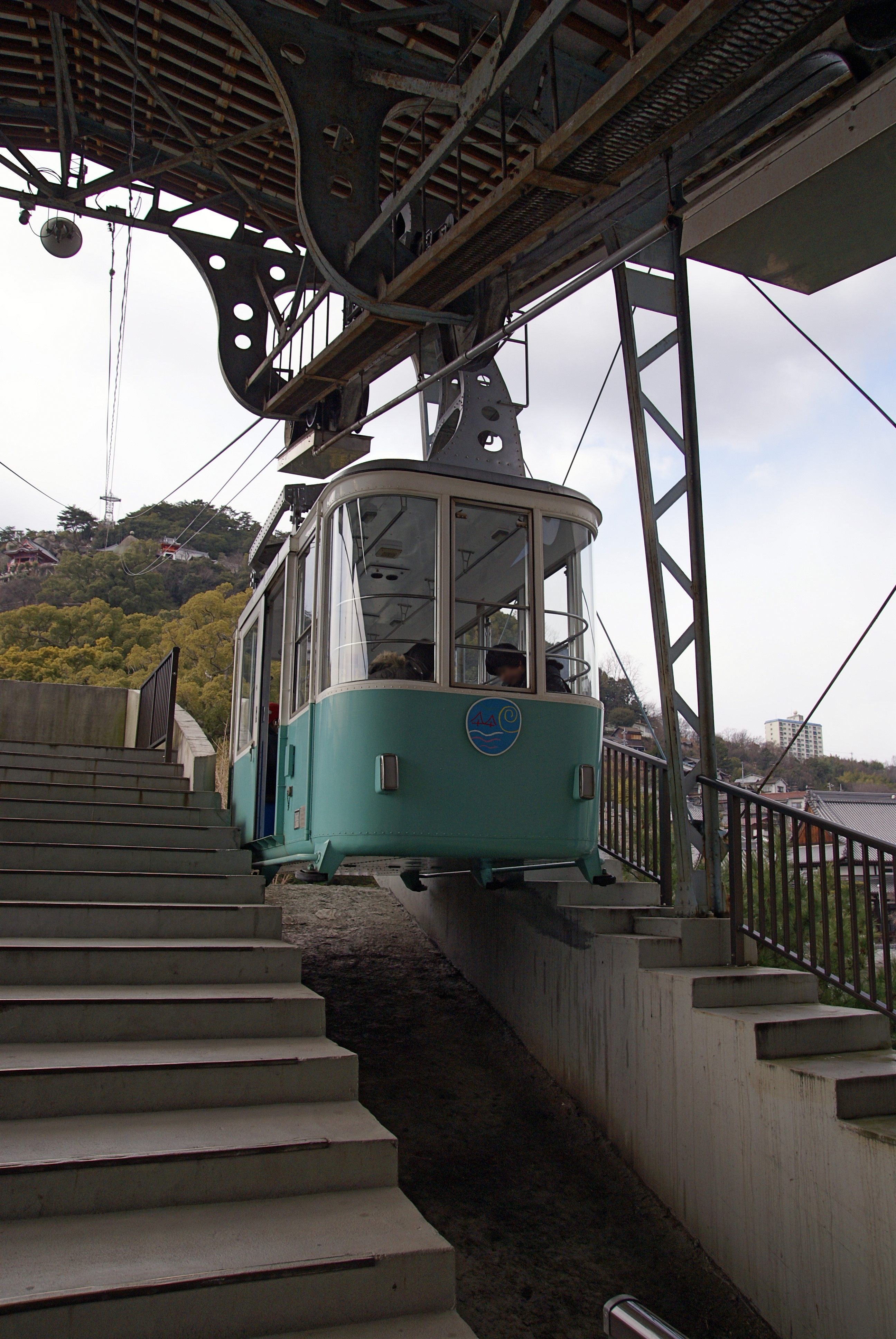 Senkojiyama Ropeway in Onomichi, Hiroshima prefecture, Japan